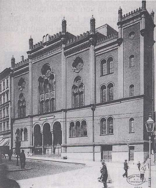 New Synagogue in Szczecin